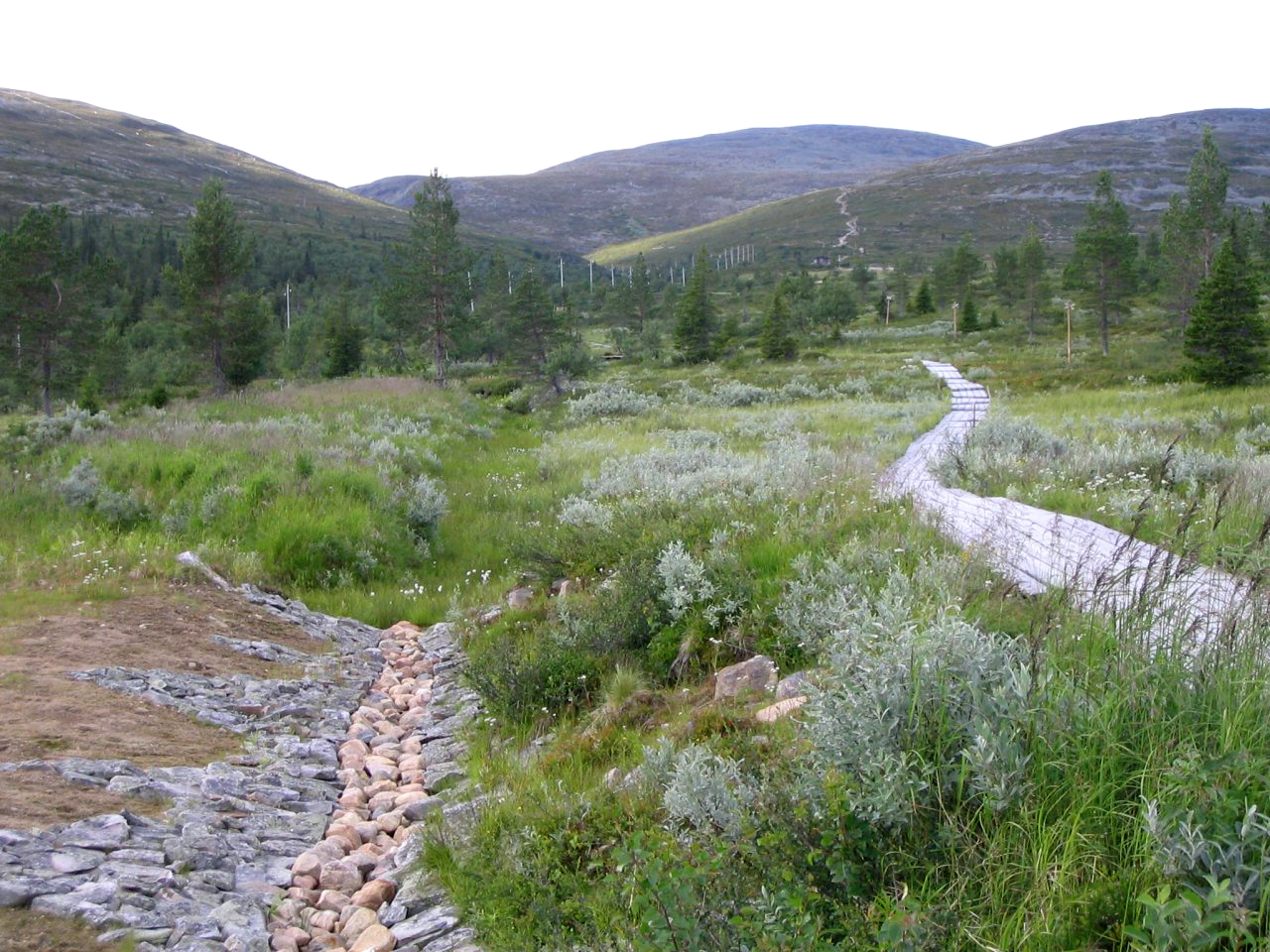 Pallastunturi fell in Muonio, Finland. Laukukero in the left, Taivaskero in the middle and Pyhäkero in the right.